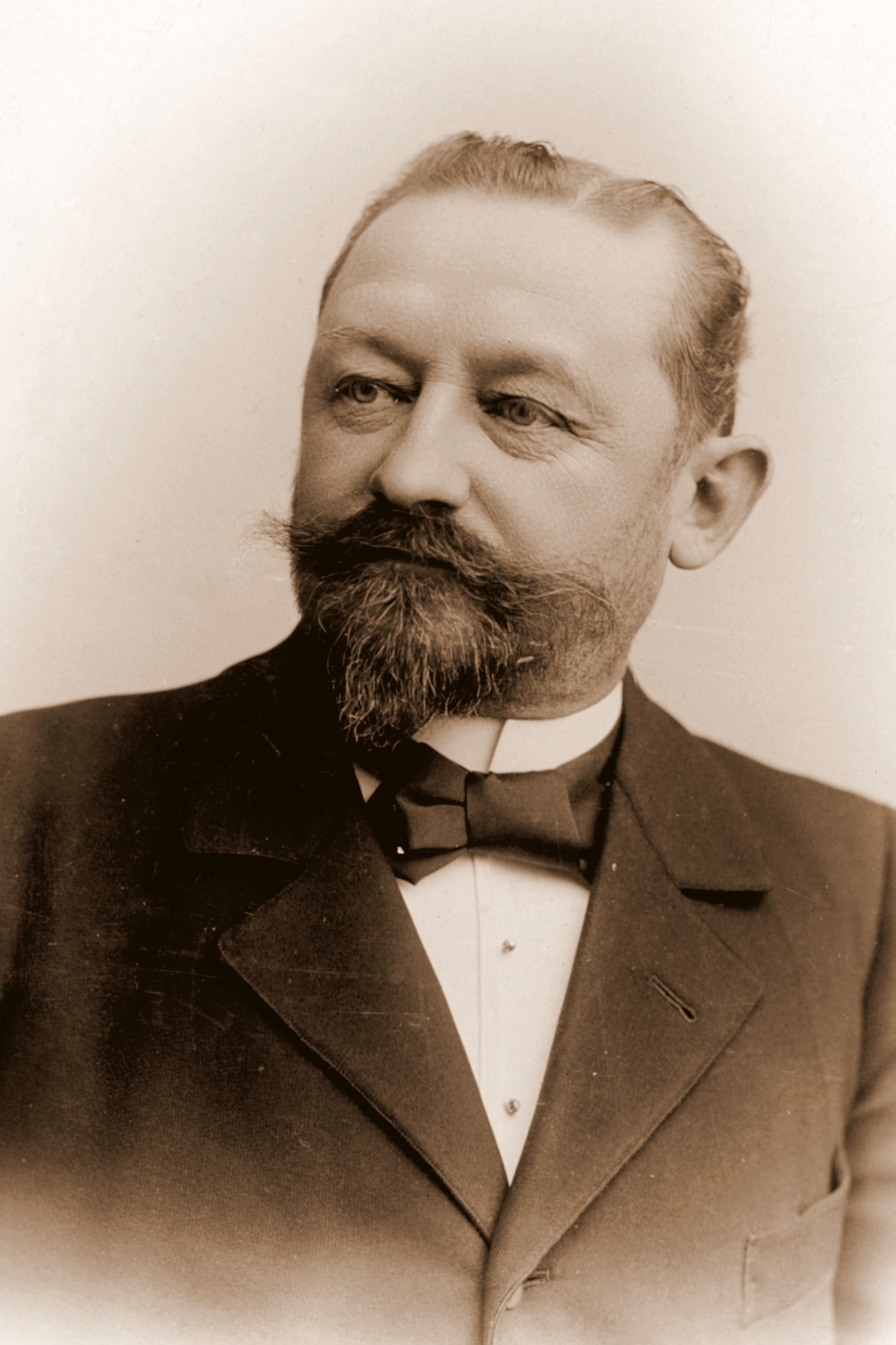 Albert Erbslöh], 56 years old